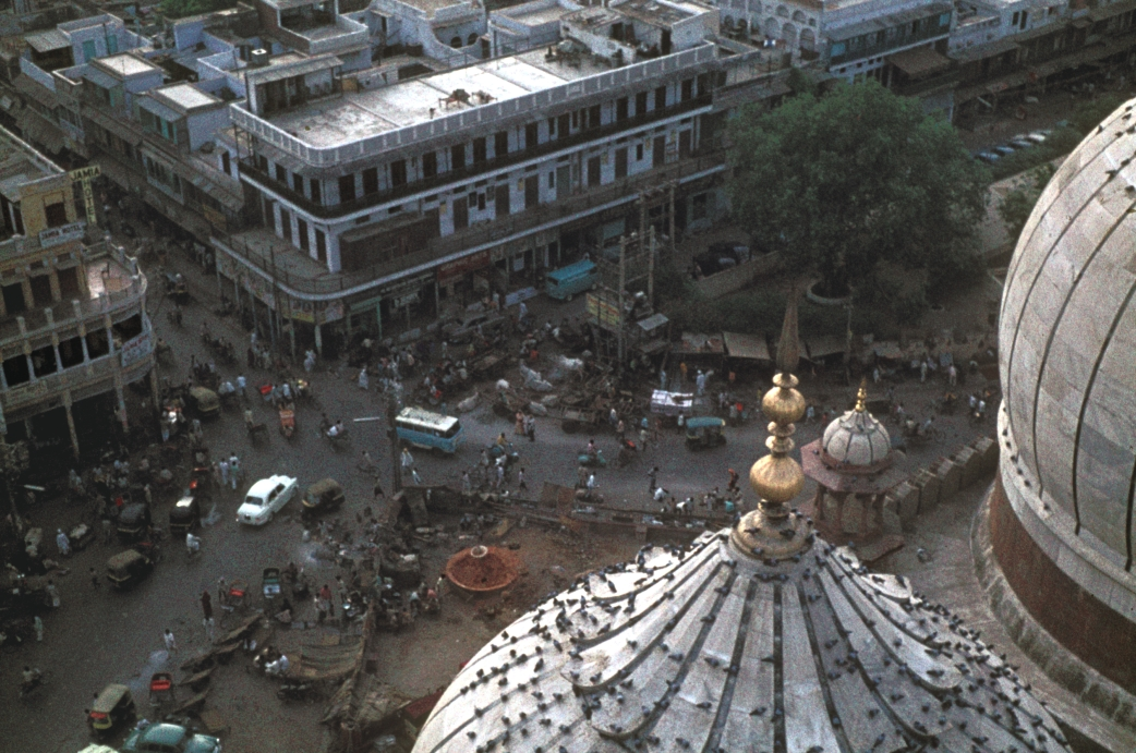 View of Delhi from the big mosque on 20 Jun 1973. Picture taken and uploaded by Roger McLassus.